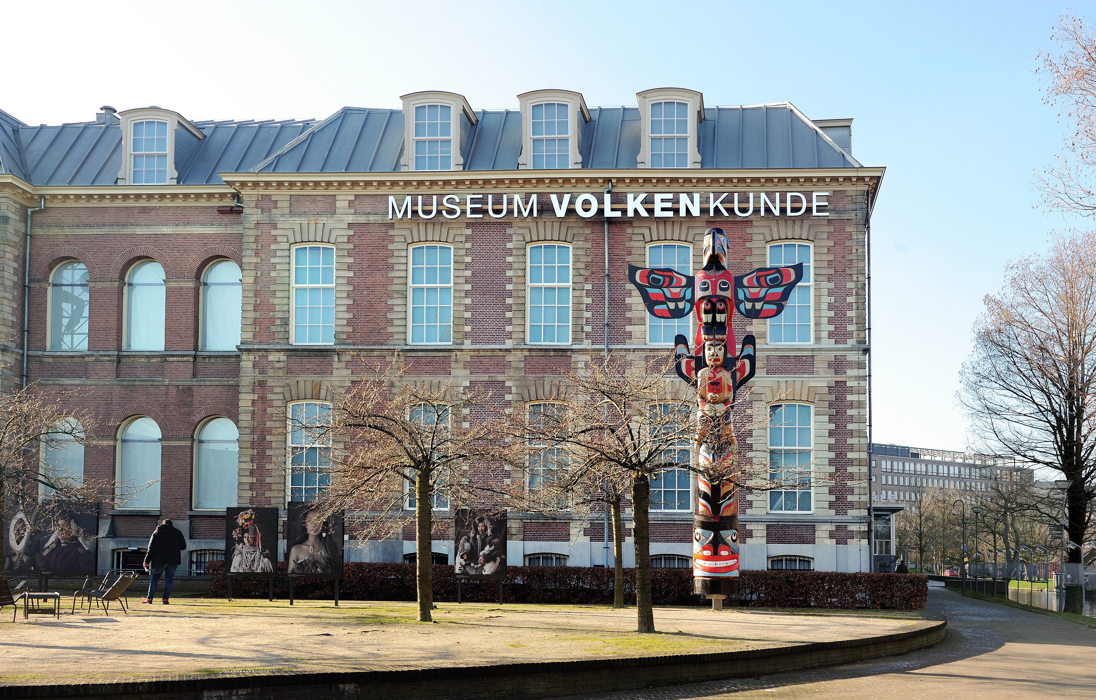 Building of the National Museum of Ethnology (Rijksmuseum Volkenkunde), Leiden, Netherlands. The 25-feet-high totem pole was carved from cedar wood by craftsmen from Cormorant Island in 2012.